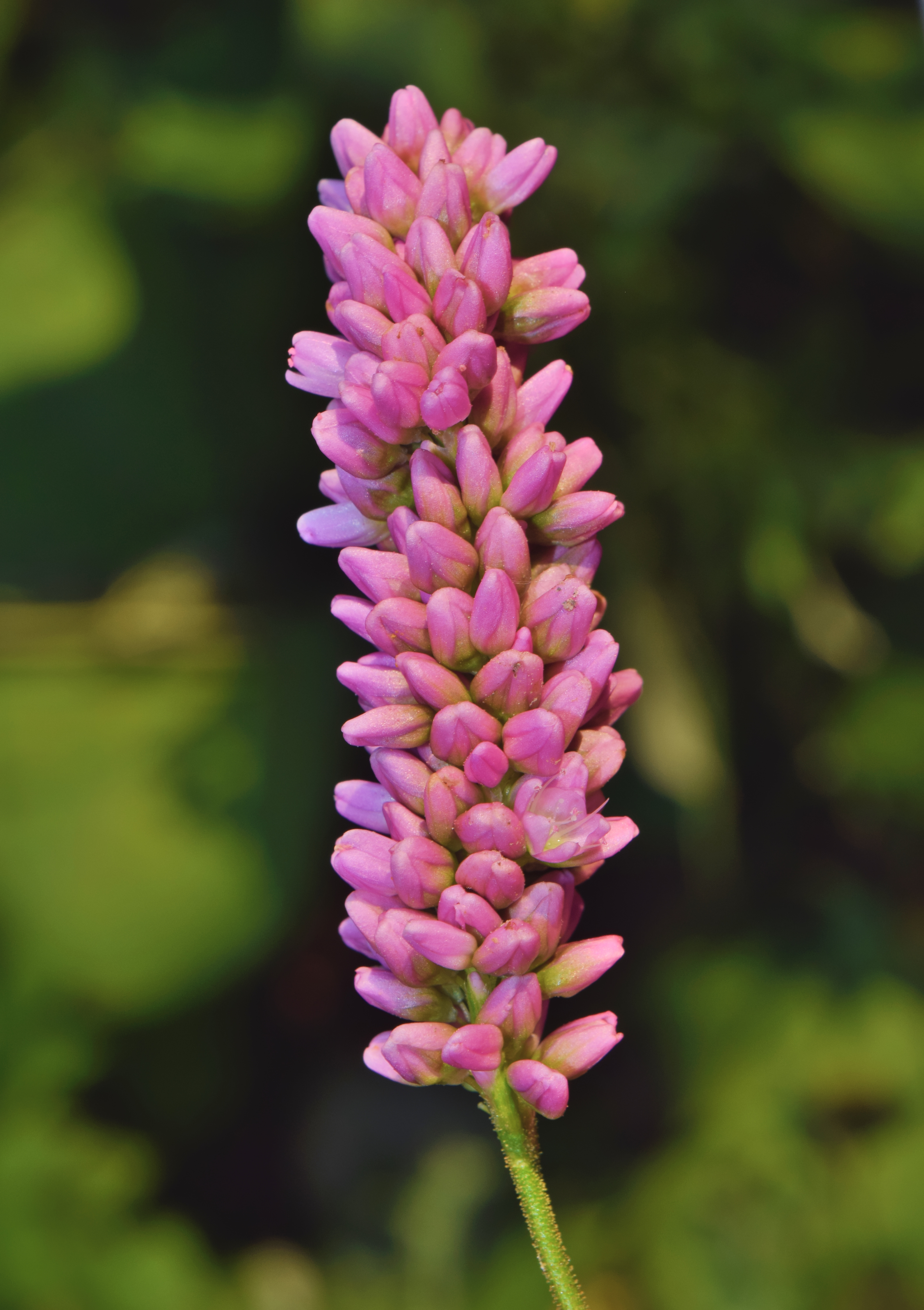 Blooming lady's thumb (Persicaria maculosa). This photo was taken in a protected area in Canada, Wikidata item Rouge National Urban Park (Q26810464)